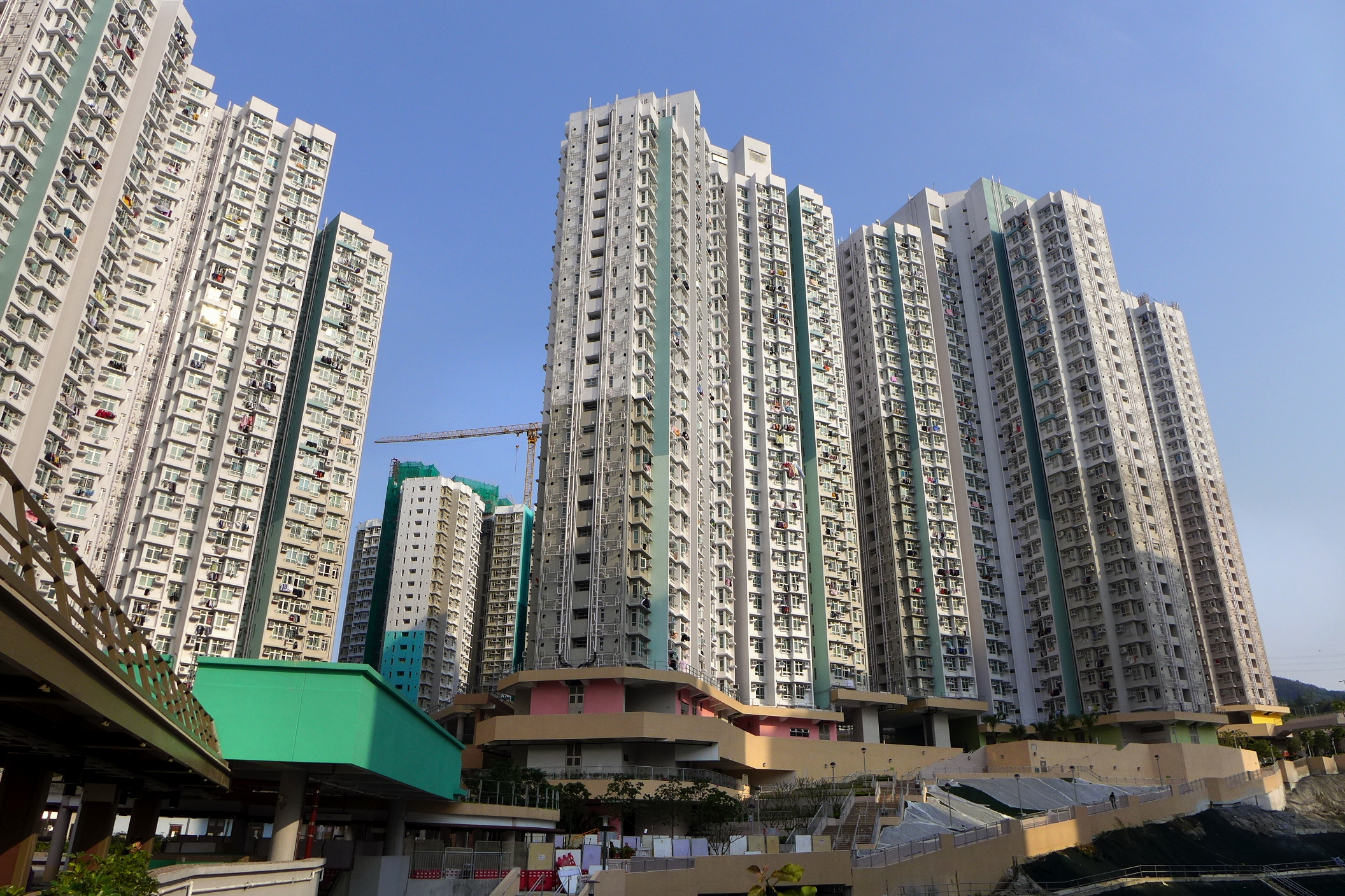 Shui Chuen O Estate Phase 1